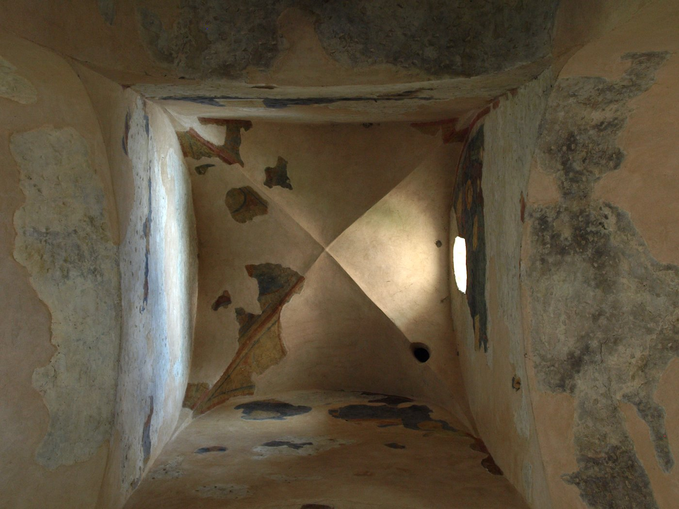 Italy, Bardolino(Veneto), San Zeno,ceiling, photo 2011